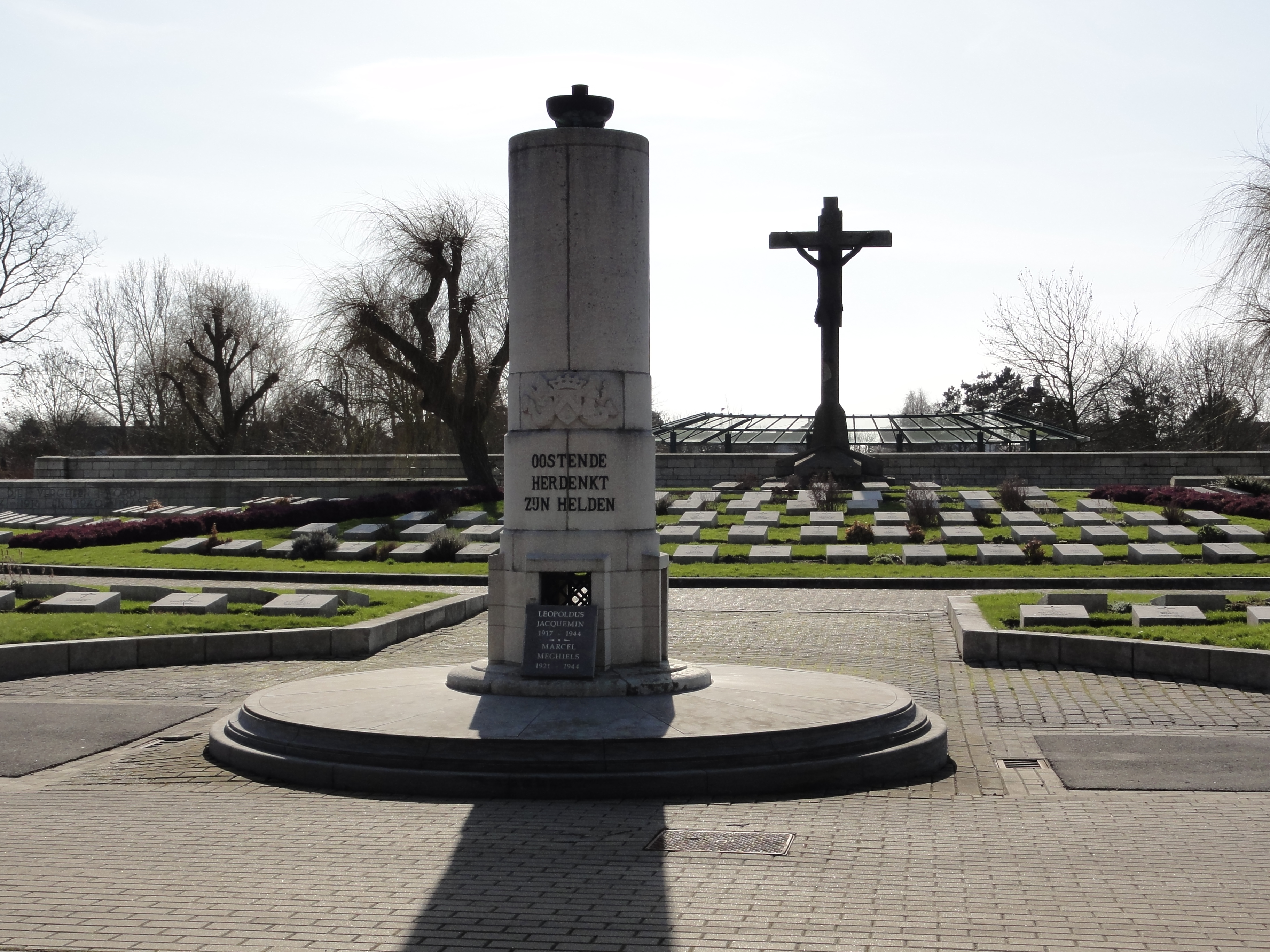 War memorial and calvary on the "Begraafplaats Stuiverstraat" cemetery in Oostende. Oostende, West Flanders, Belgium